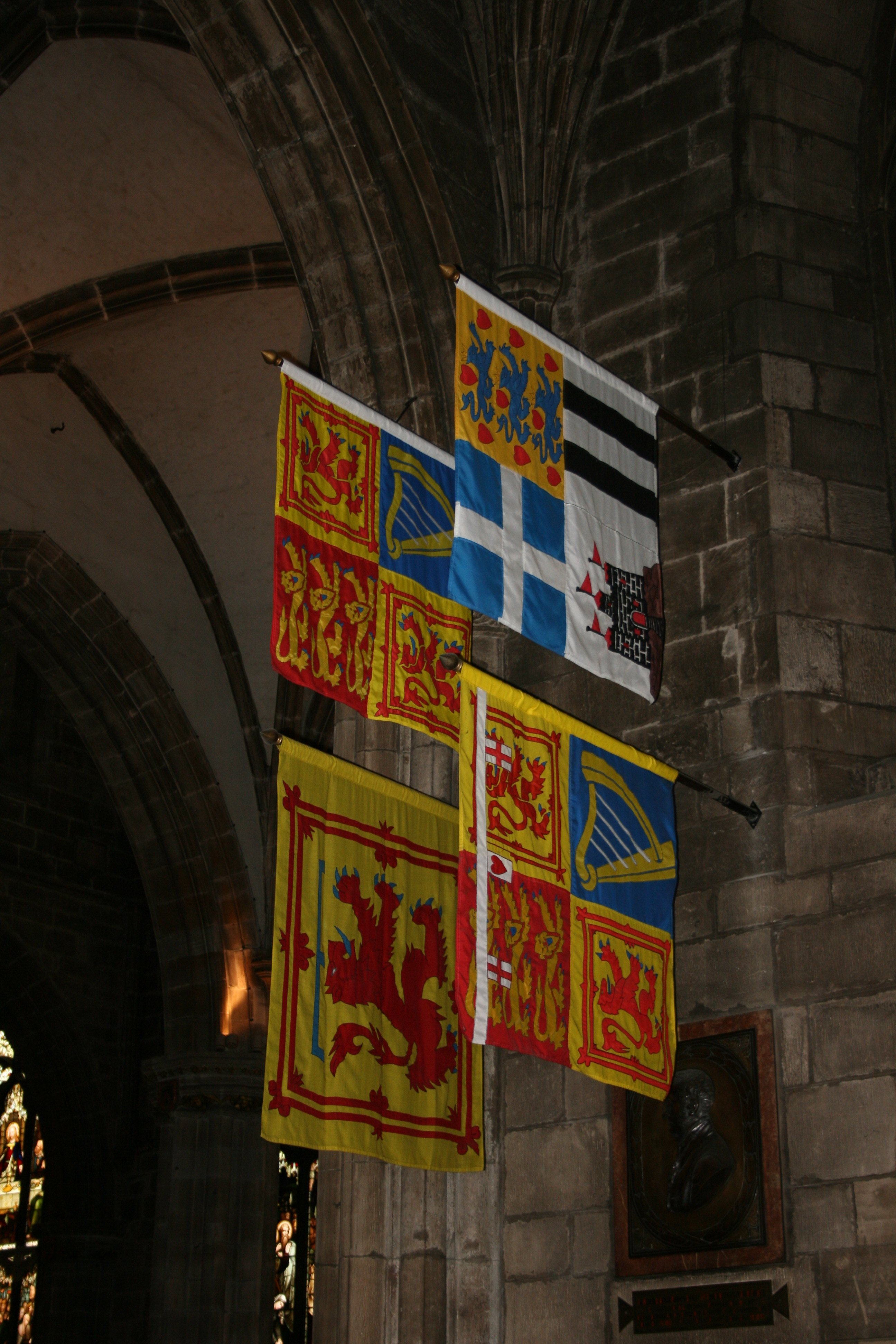 Royal banners hanging outside the Chapel of the Order of the Thistle. St Giles Cathedral, Edinburgh.